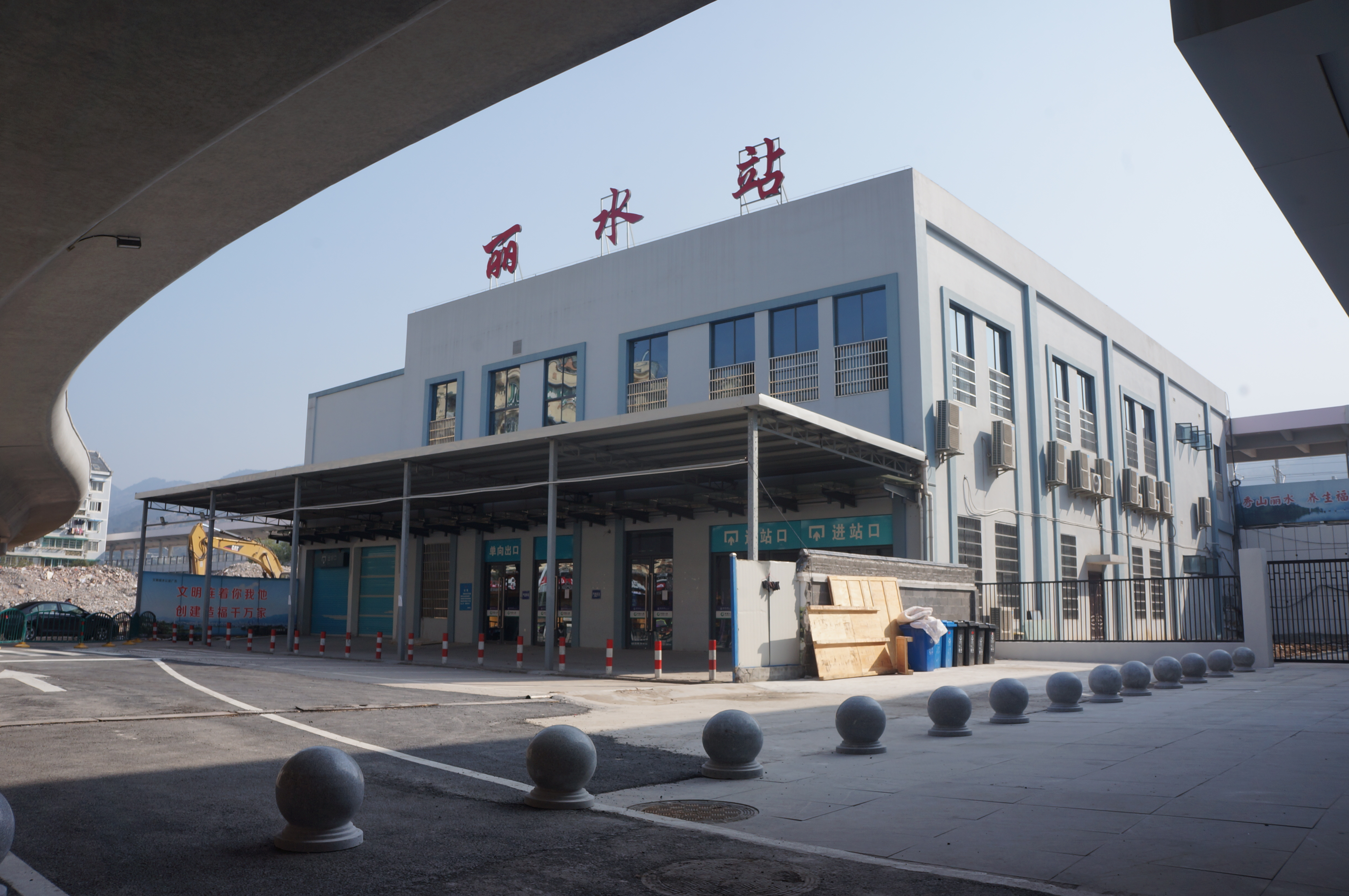 201701 Temporary station building of Lishui Station, it was used as transitional function building during the construction period of new station building.